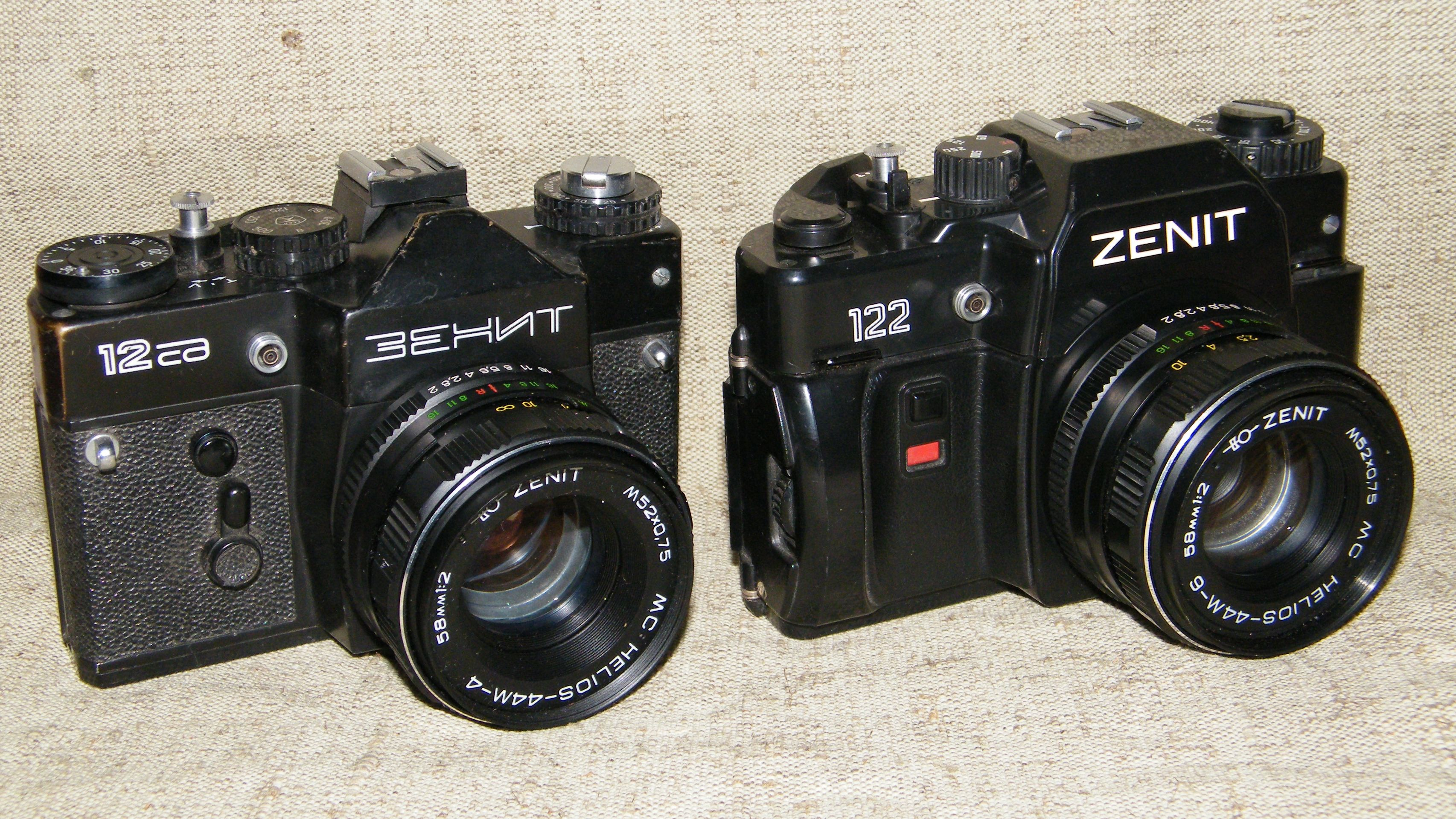 Зенит-12сд и Зенит-122